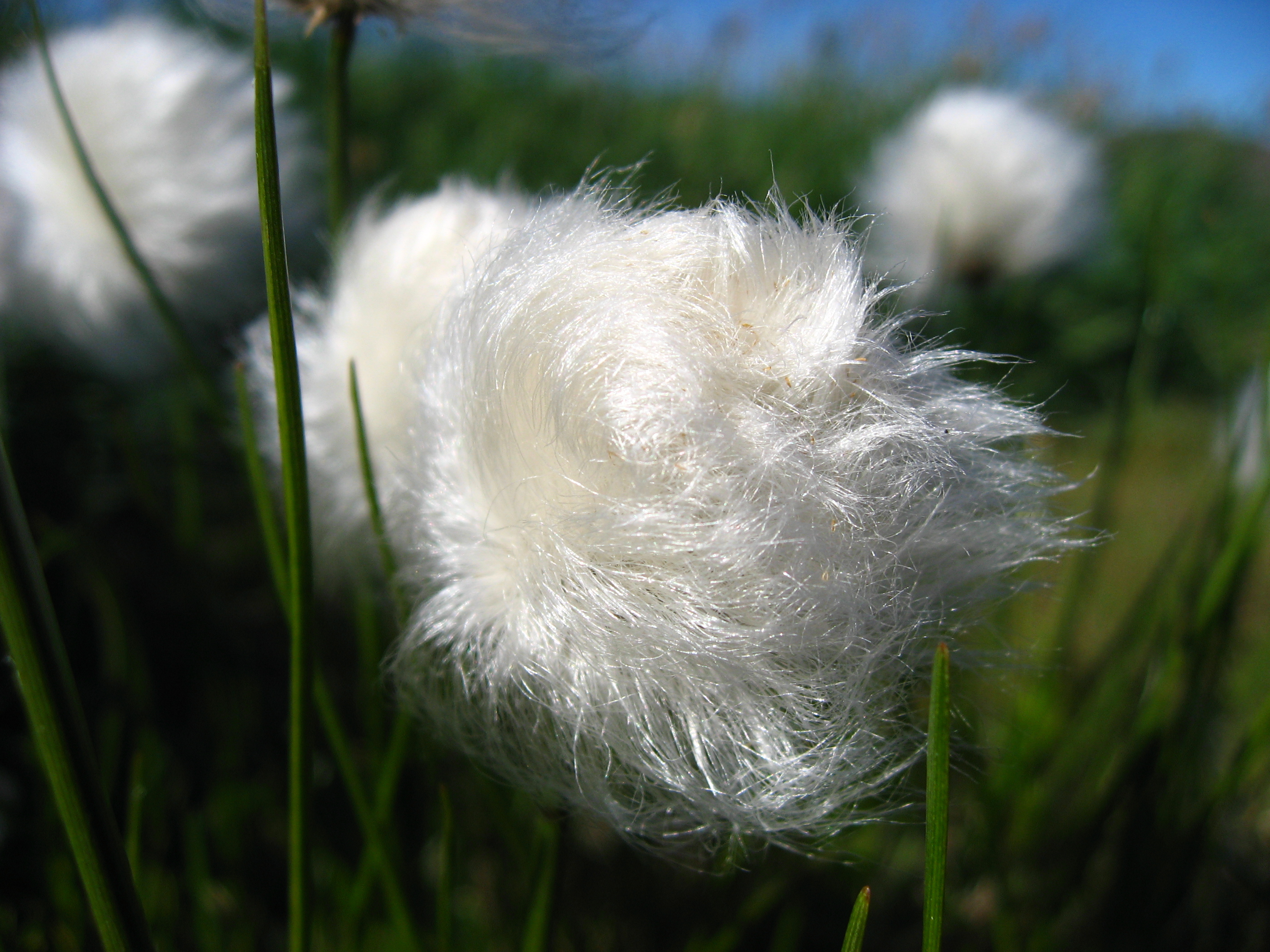 White Cottongrass (Eriophorum scheuchzeri) photographed at roadside in Upernavik Kujalleq, Greenland.